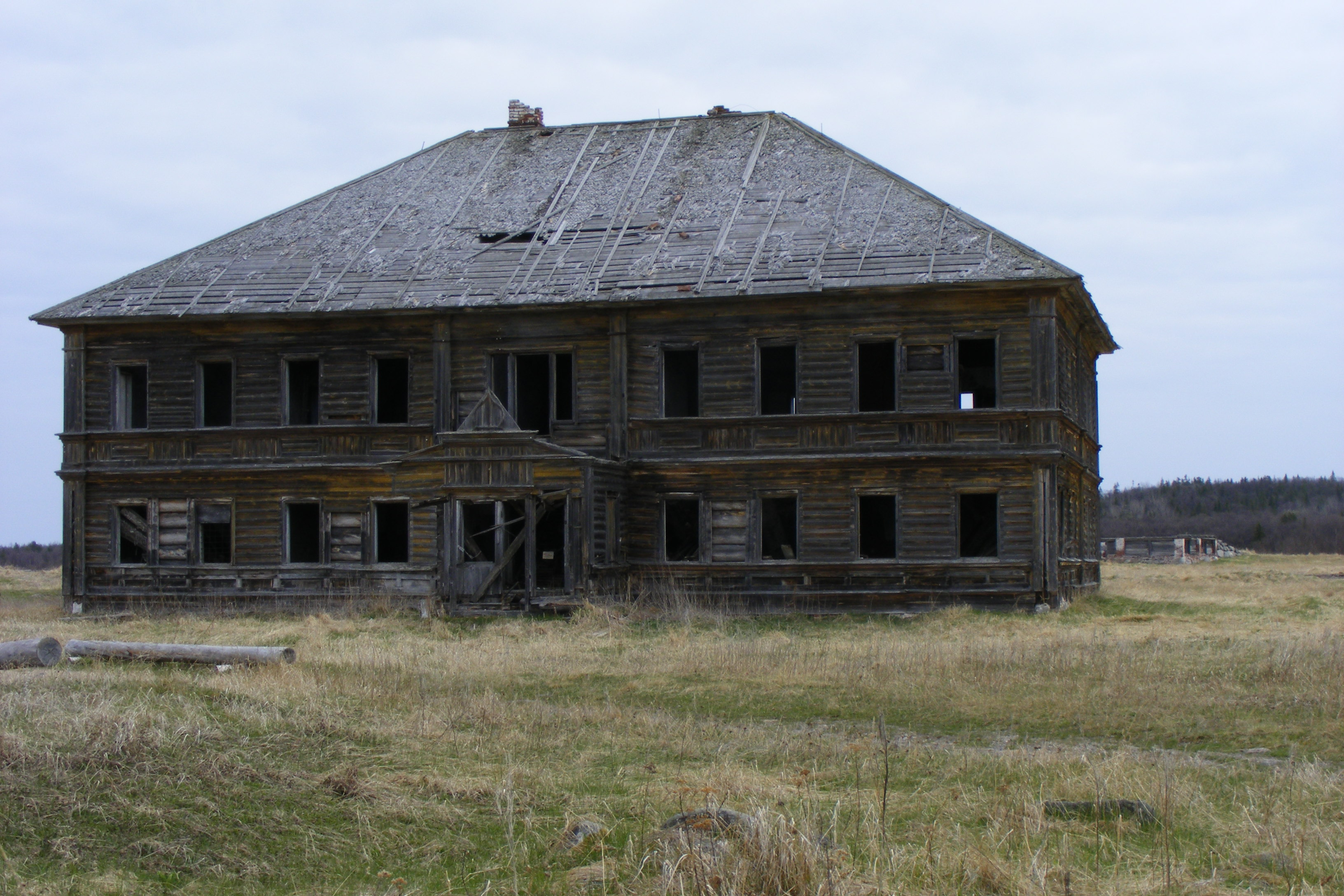 Sergeev's Monastery. Muksolma Island, Russia.